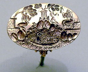 Archaeological Museum in Herakleion. So called "Ring of Minos", probably from Knossos. Late New Palace period ( 1500 - 1400 B.C. )